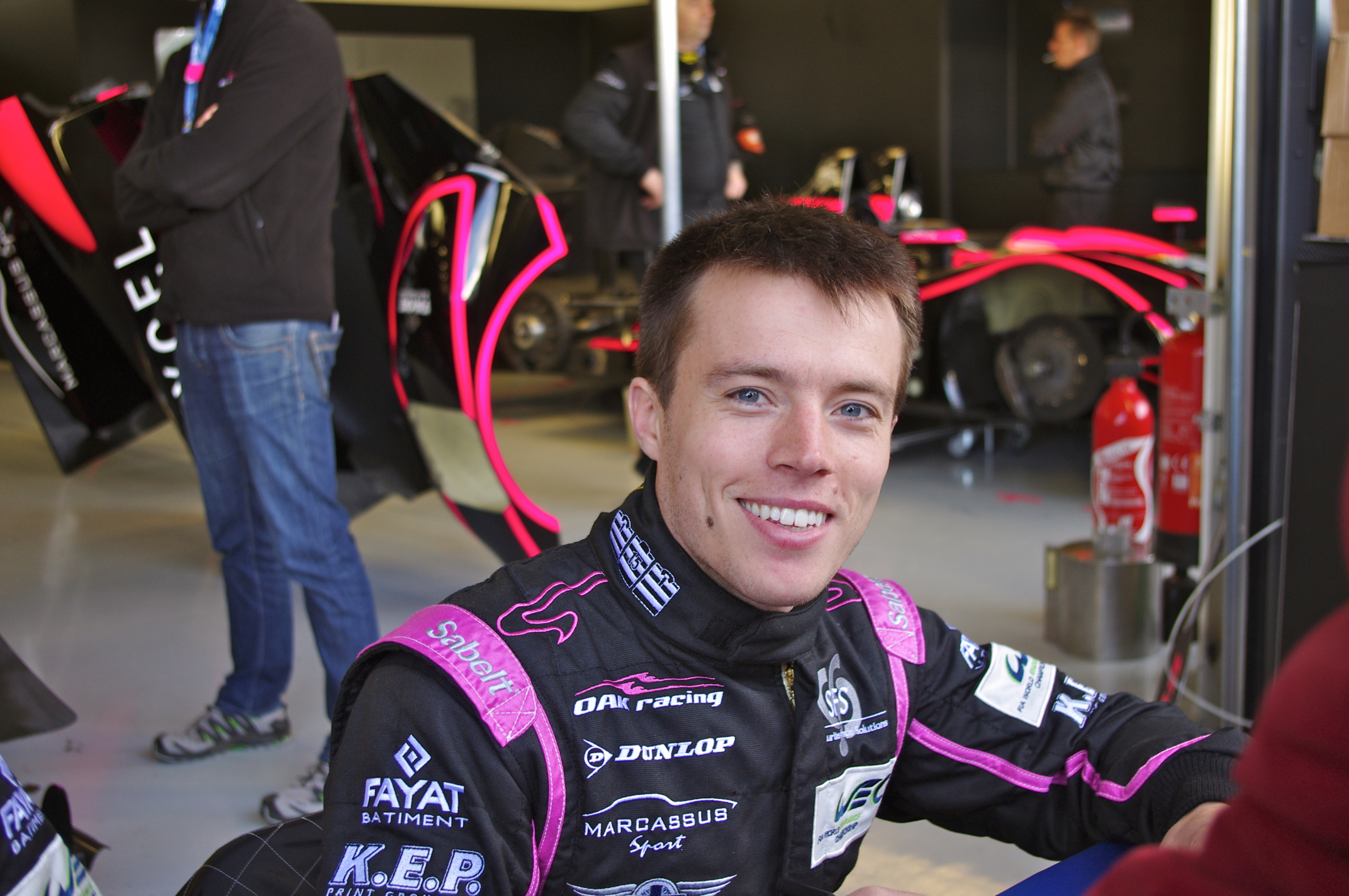 Silverstone 6 Hours 2013 FIA World Endurance Championship (WEC)